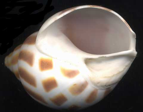 Babylonia areolata; family Buccinidae